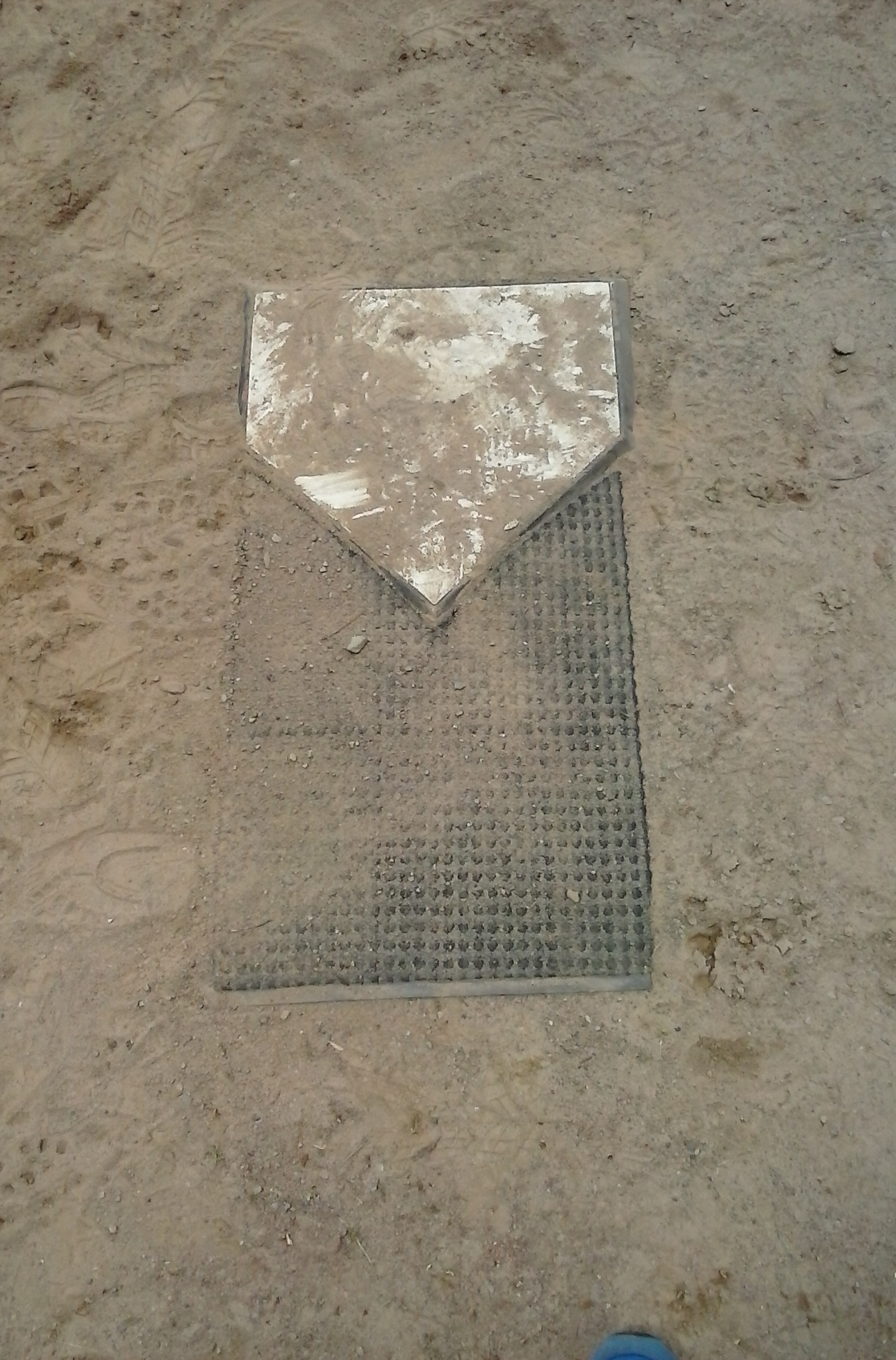 A picture of the target used in slowpitch softball. A pitched ball must hit either the base or the target to count as a strike